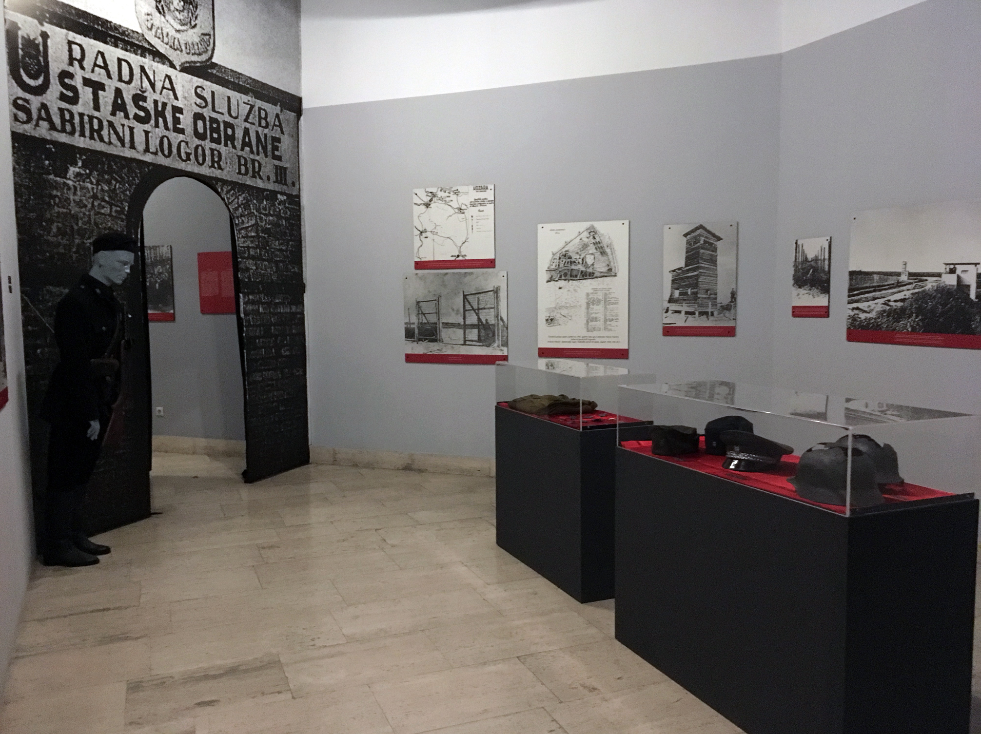 concentration camp